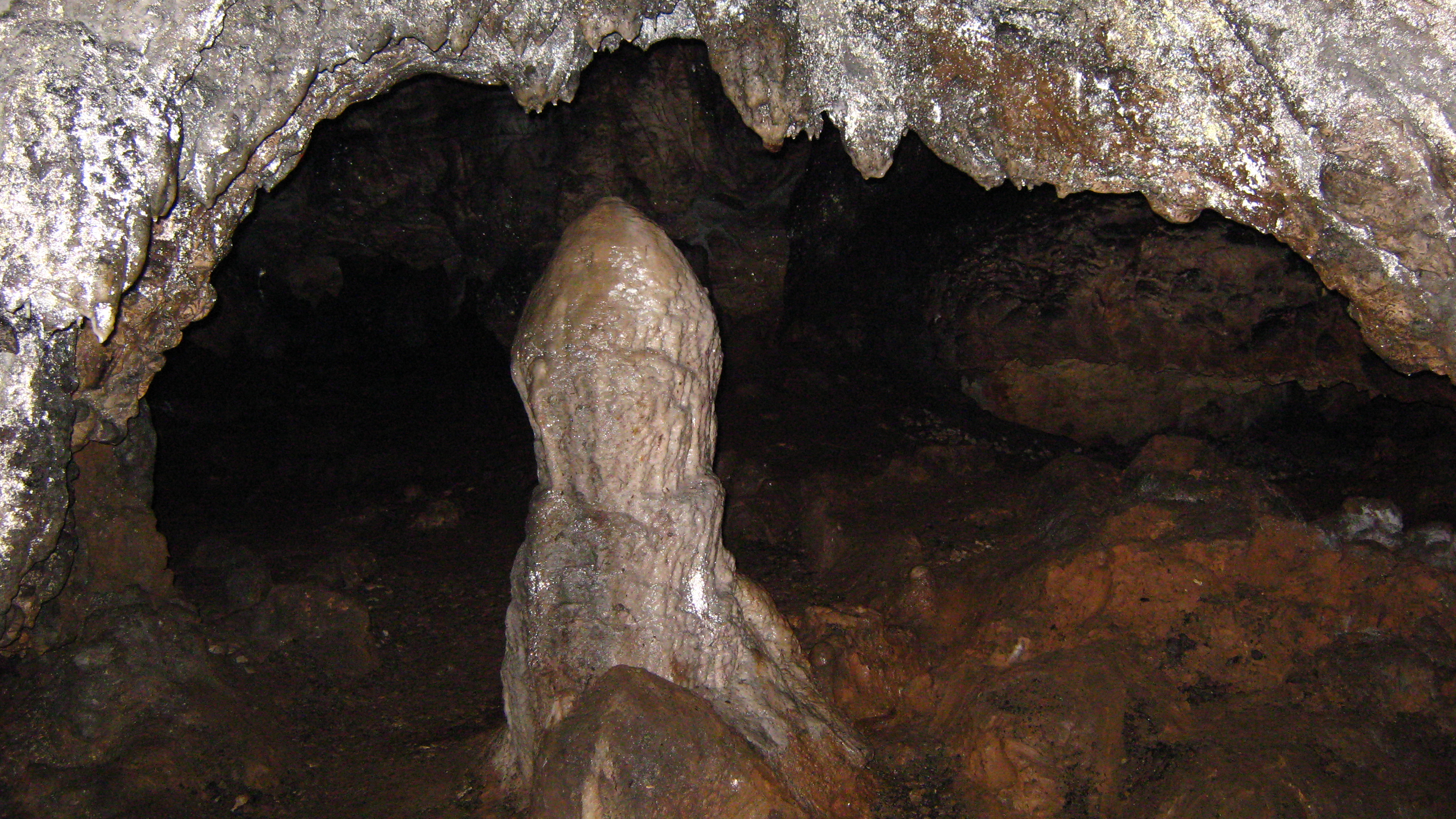 Rastuska pecina 3